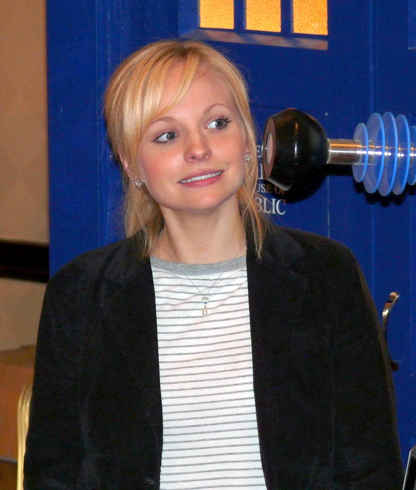 Georgia Moffet at a Science Fiction convention (modified from original flickr - cropped and color/lighting adjusted)